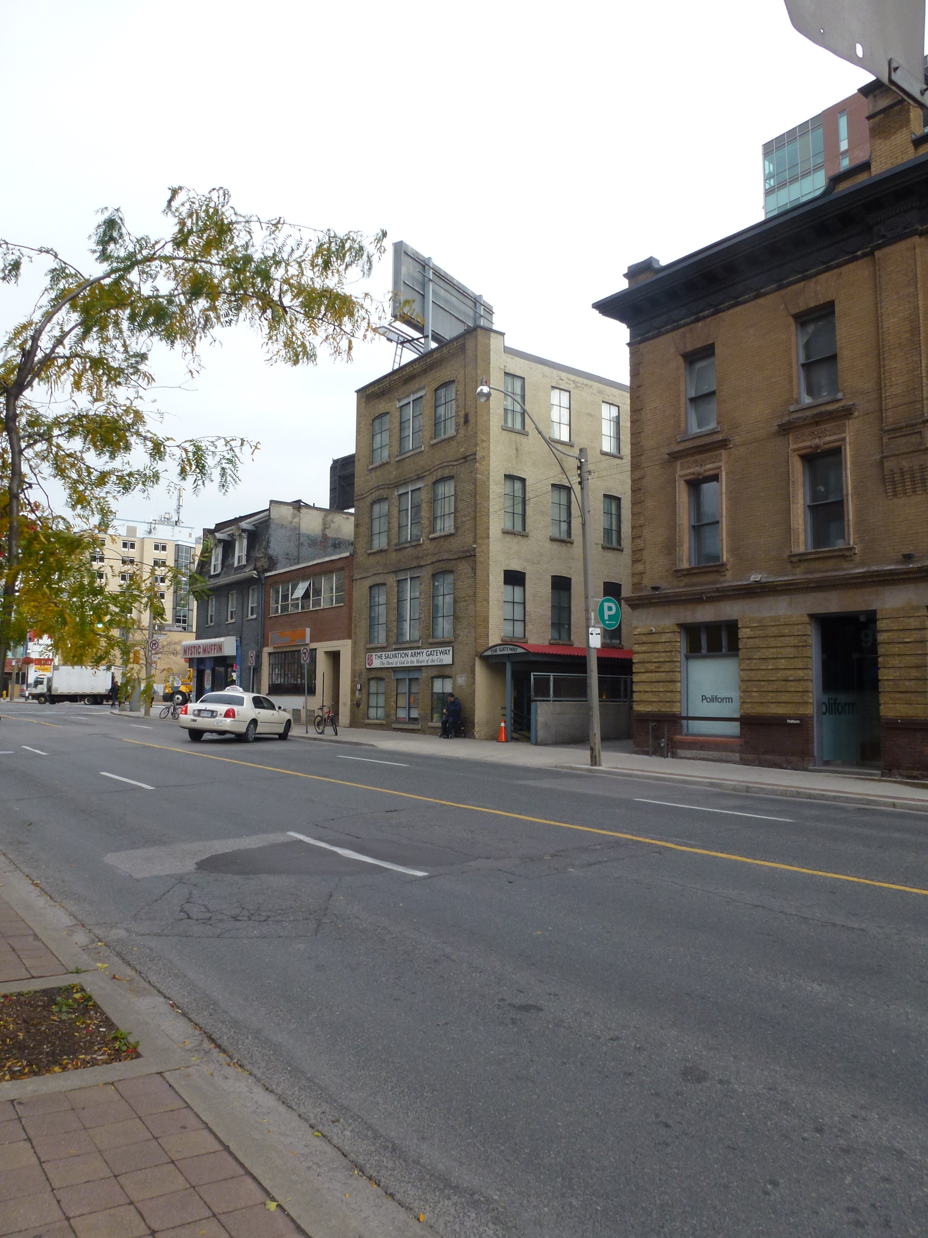 The Good Shepherd, a Salvation Army homeless shelter on Church Street, 2013 10 21